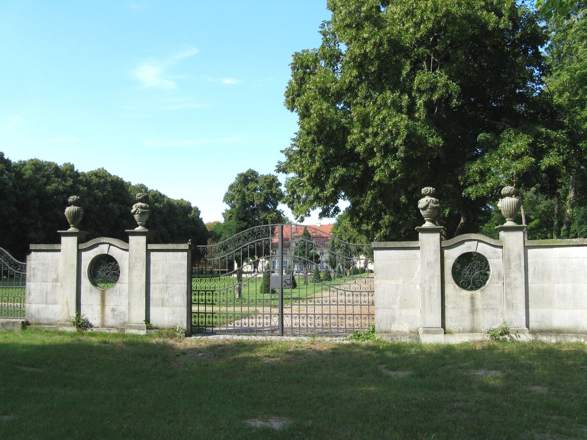 Former manor house in Hasenwinkel, Mecklenburg-Vorpommern, Germany - Gate/Historical entry